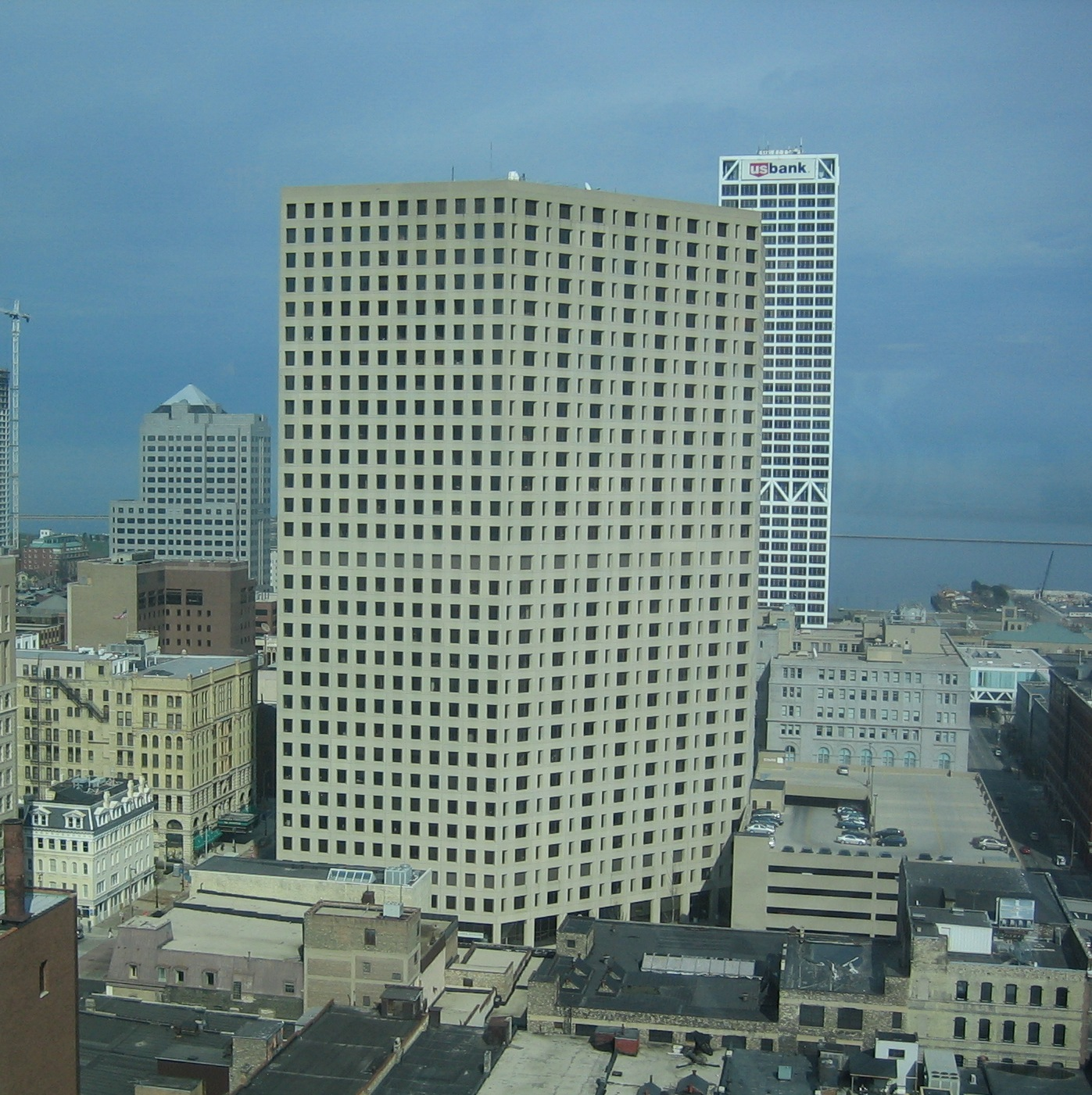 w:411 East Wisconsin Center This image was originally posted to Flickr by compujeramey at It was reviewed on 9 January 2010 by FlickreviewR and was confirmed to be licensed under the terms of the cc-by-2.0.